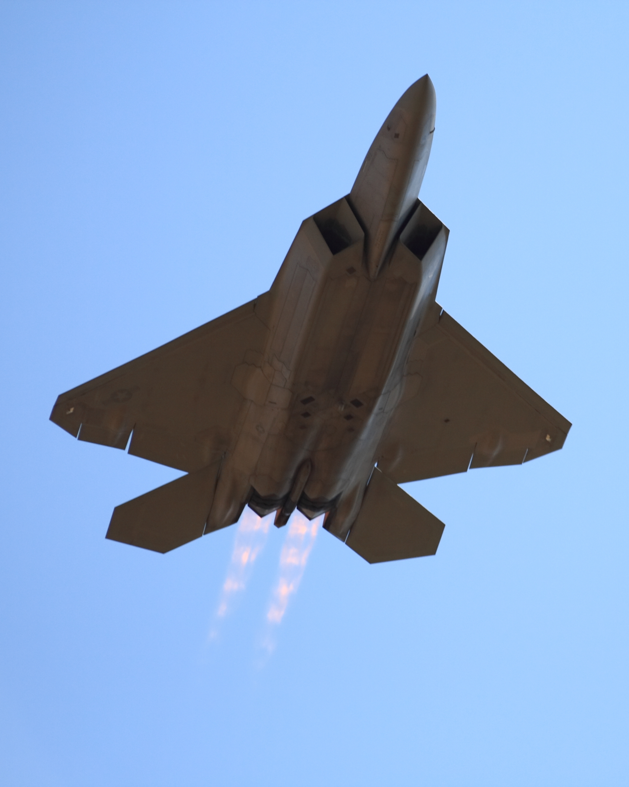 The underside of an F-22 Raptor flying over the Swan Lake Nature Study Area in Reno, Nevada, during the 2008 Reno Air Races.